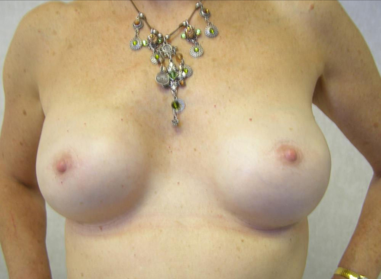 Nipple sparing Lumpectomy and implant reconstruction. Bilateral nipple-sparing Lumpectomy and implant reconstruction for bilateral breast cancer in a 57 year old woman.